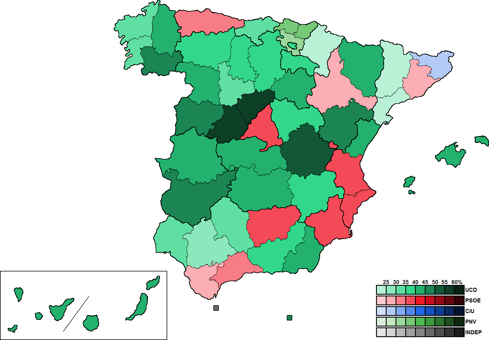 Provincial results for the 1979 Spanish municipal election.